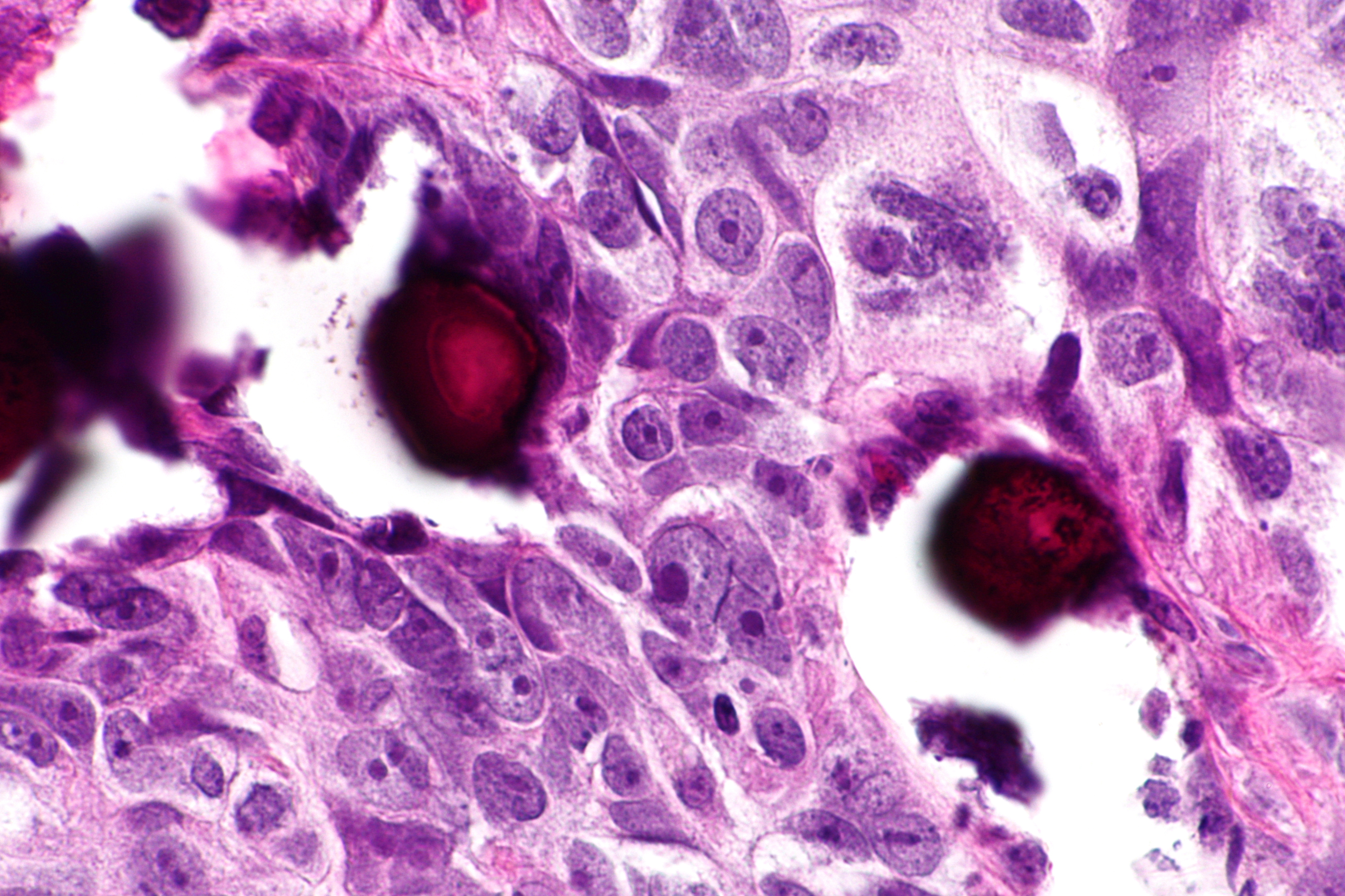 Micrograph showing serous carcinoma in the omentum, presumed to have arisen from the ovary (ovarian serous carcinoma). H&E stain. Related images Serous ca - high mag. Serous ca - very high mag. Serous ca - high mag. Serous ca - very high mag. Serous ca - very high mag.